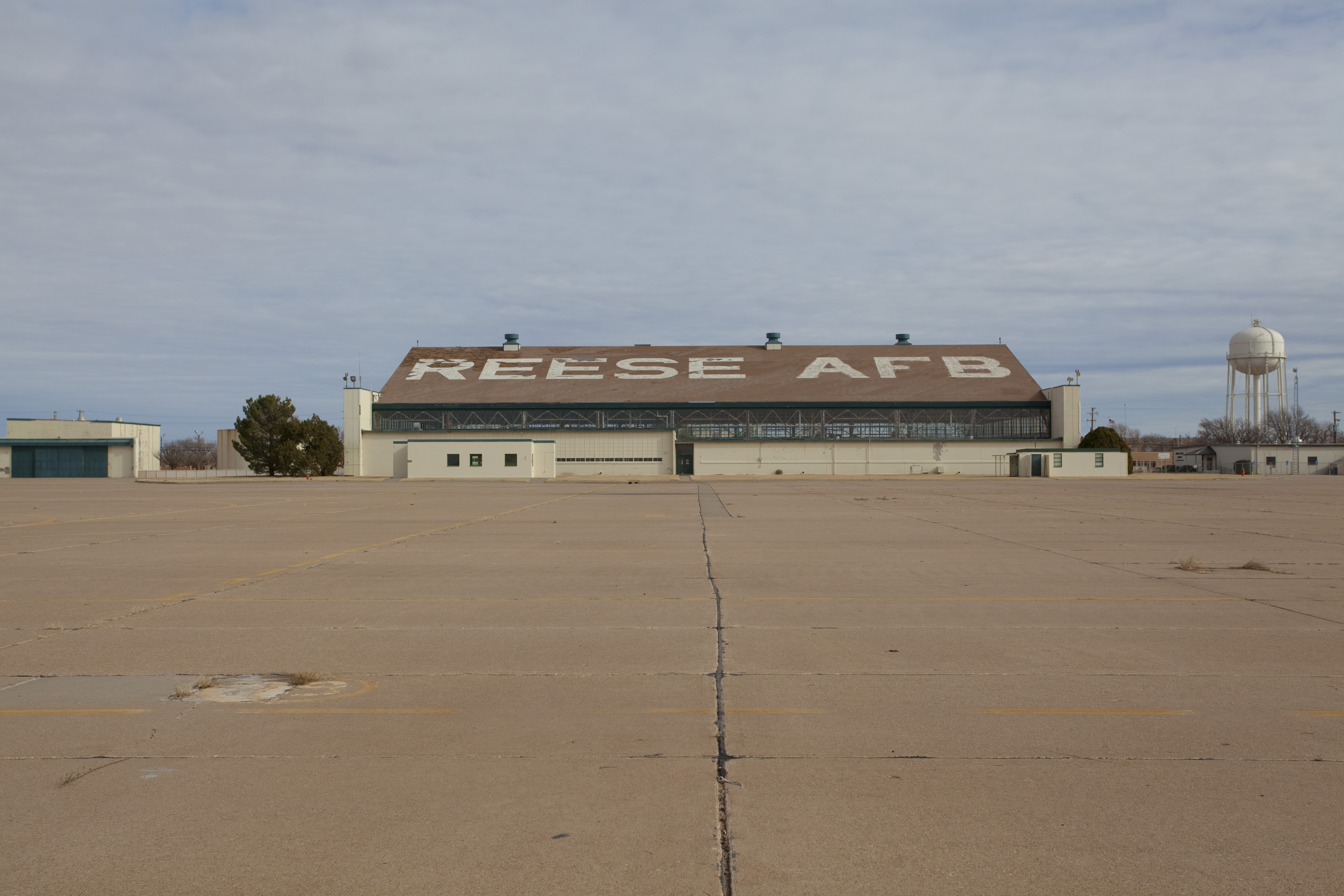 Aircraft hangar at the former Reese Air Force Base, now called Reese Technology Center, Lubbock, Texas.